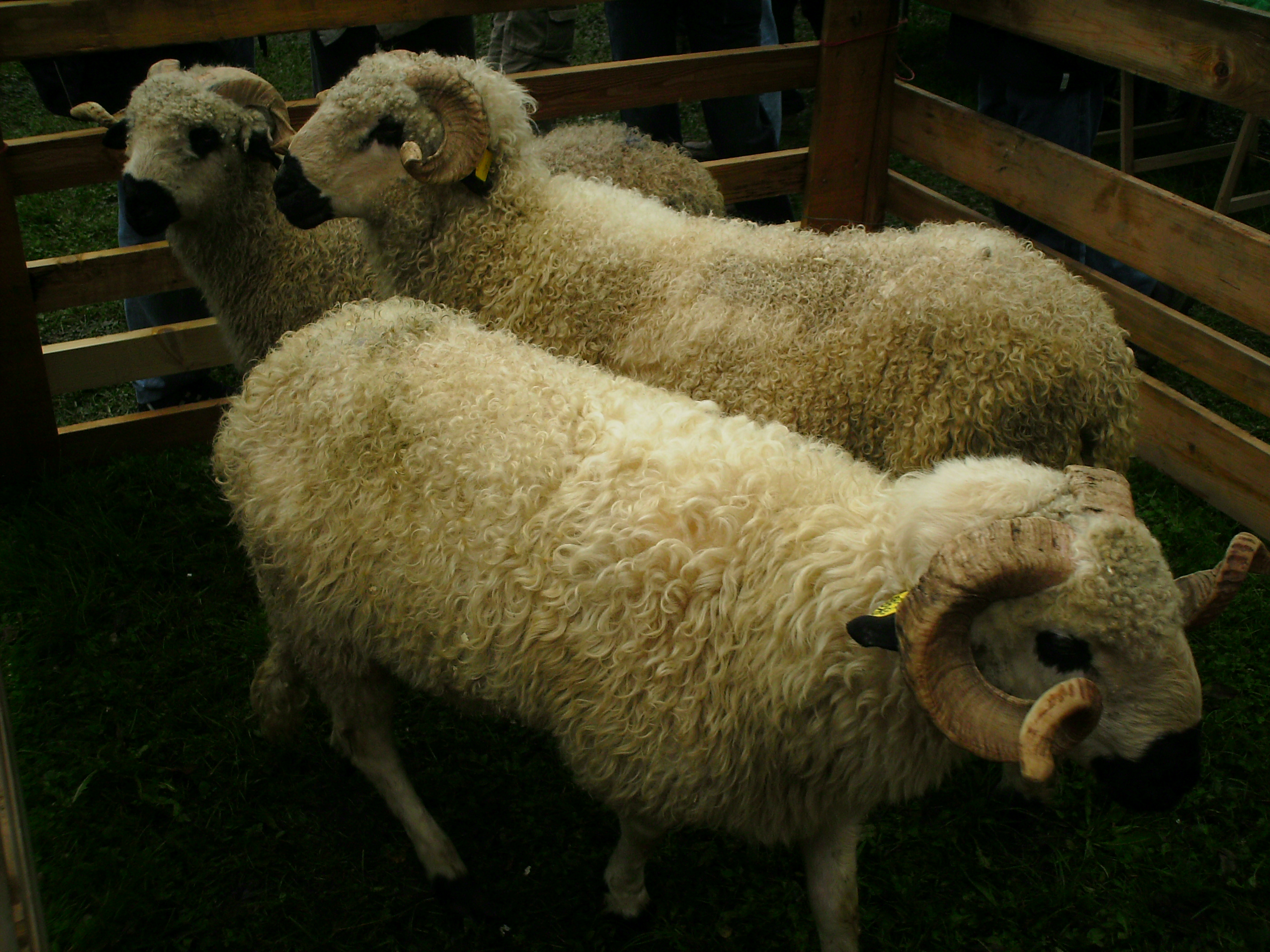 "Thônes et Marthod" french race sheep